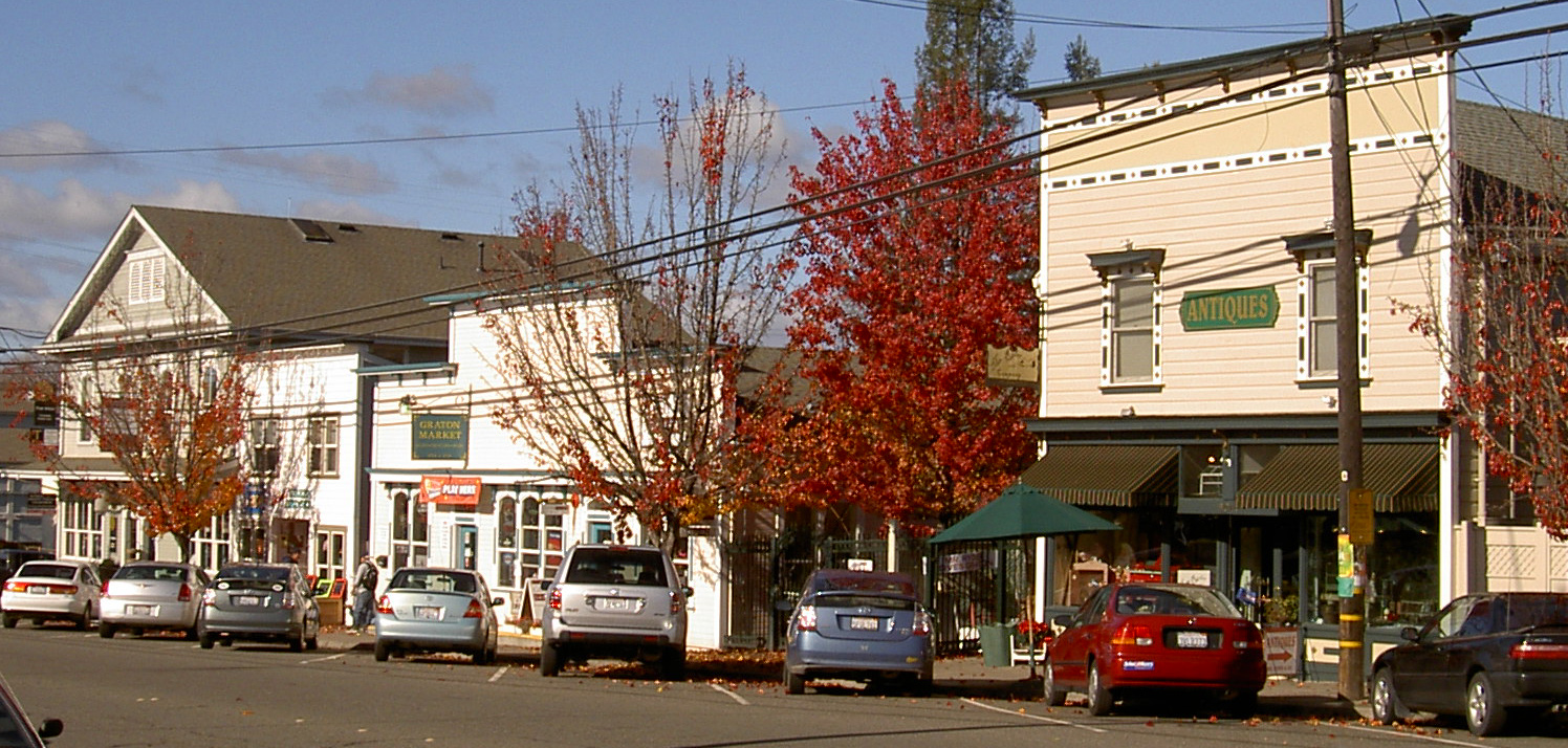 Photo of Graton storefronts on north side of Graton Road between Ross Road and South Edison Street, taken by Stephen Gold on December 7, 2007.